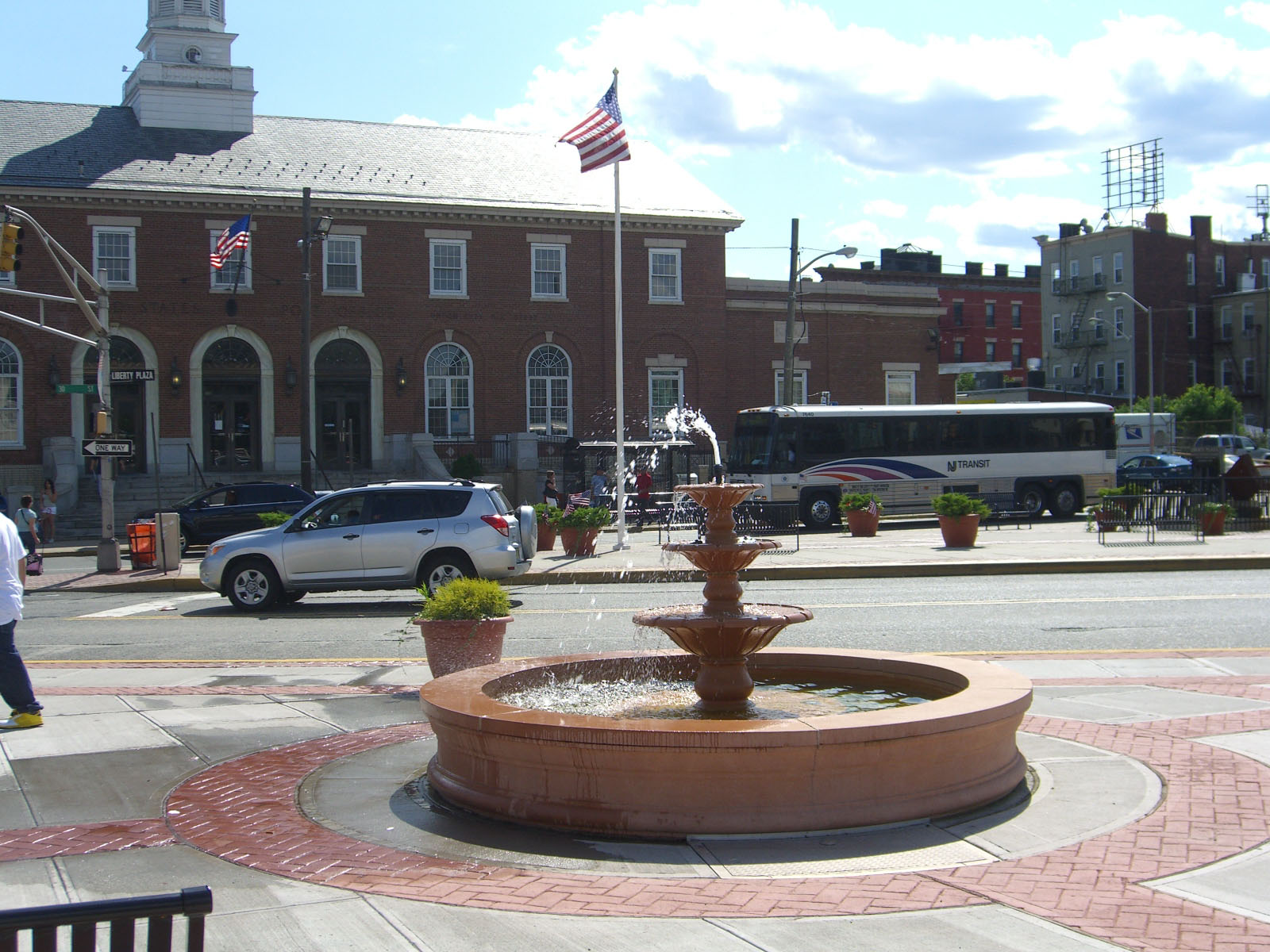 Liberty Plaza in Union City, New Jersey, created in 2007 in tribute to the four citizens of Union City lost in the September 11 Attacks, Gary L. Bright, Jorge Luis Leon, Alejo Perez and Nancy E. Perez. In the background is the main branch of Union City’s post office. Photo by Luigi Novi. This photo may be used for any purpose, provided that the photographer is visibly credited in each instance where it is used (See Licensing information below). For further information on the Licensing requirements, contact me here.